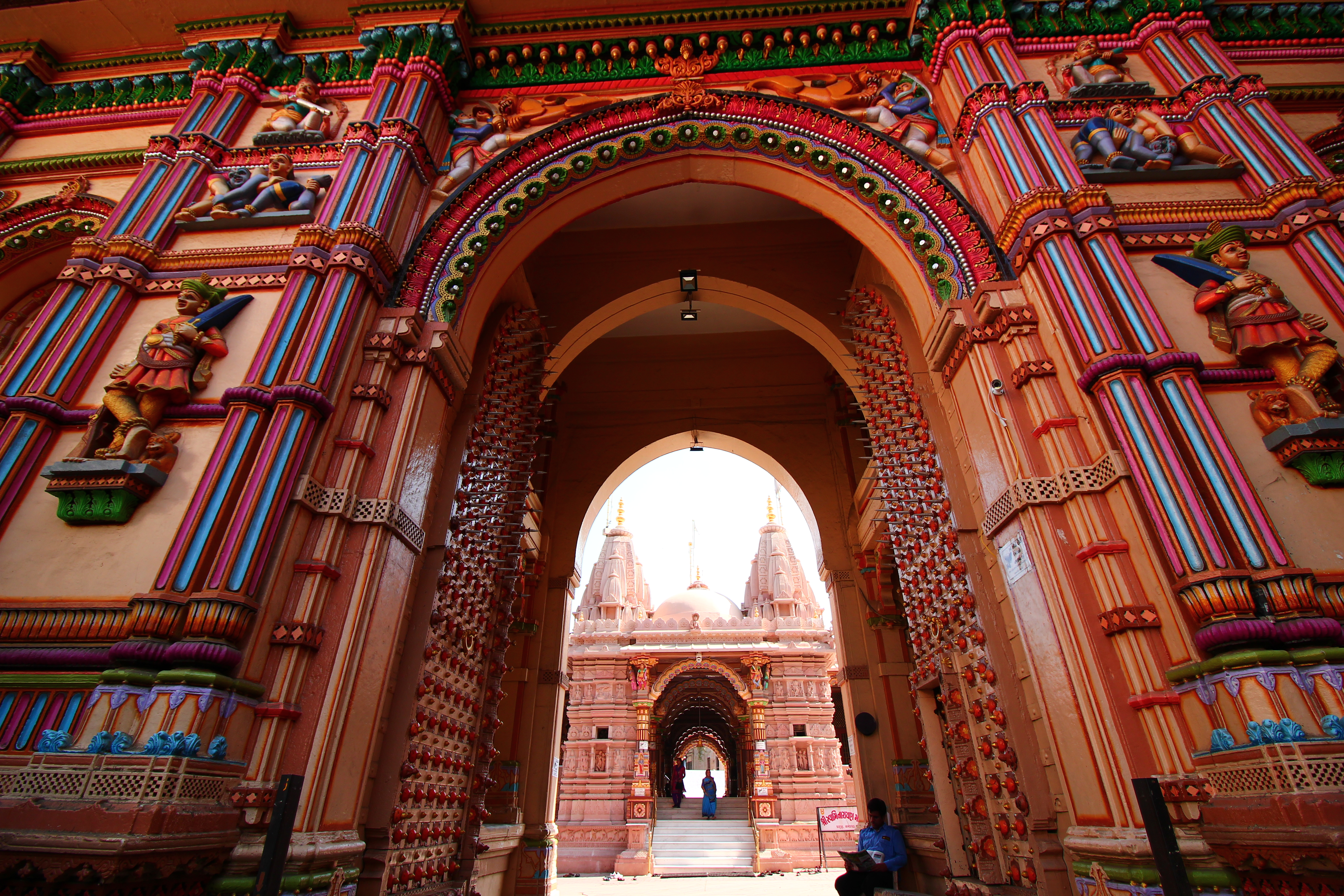 Shree Swaminarayan Mandir Kalupur is the first Temple of the Swaminarayan Sampraday, a Hindu sect. It is located in Kalupur area of Ahmedabad, the largest city in Gujarat, India. It was built on the instructions of Lord Shree Swaminarayan Bhagwan